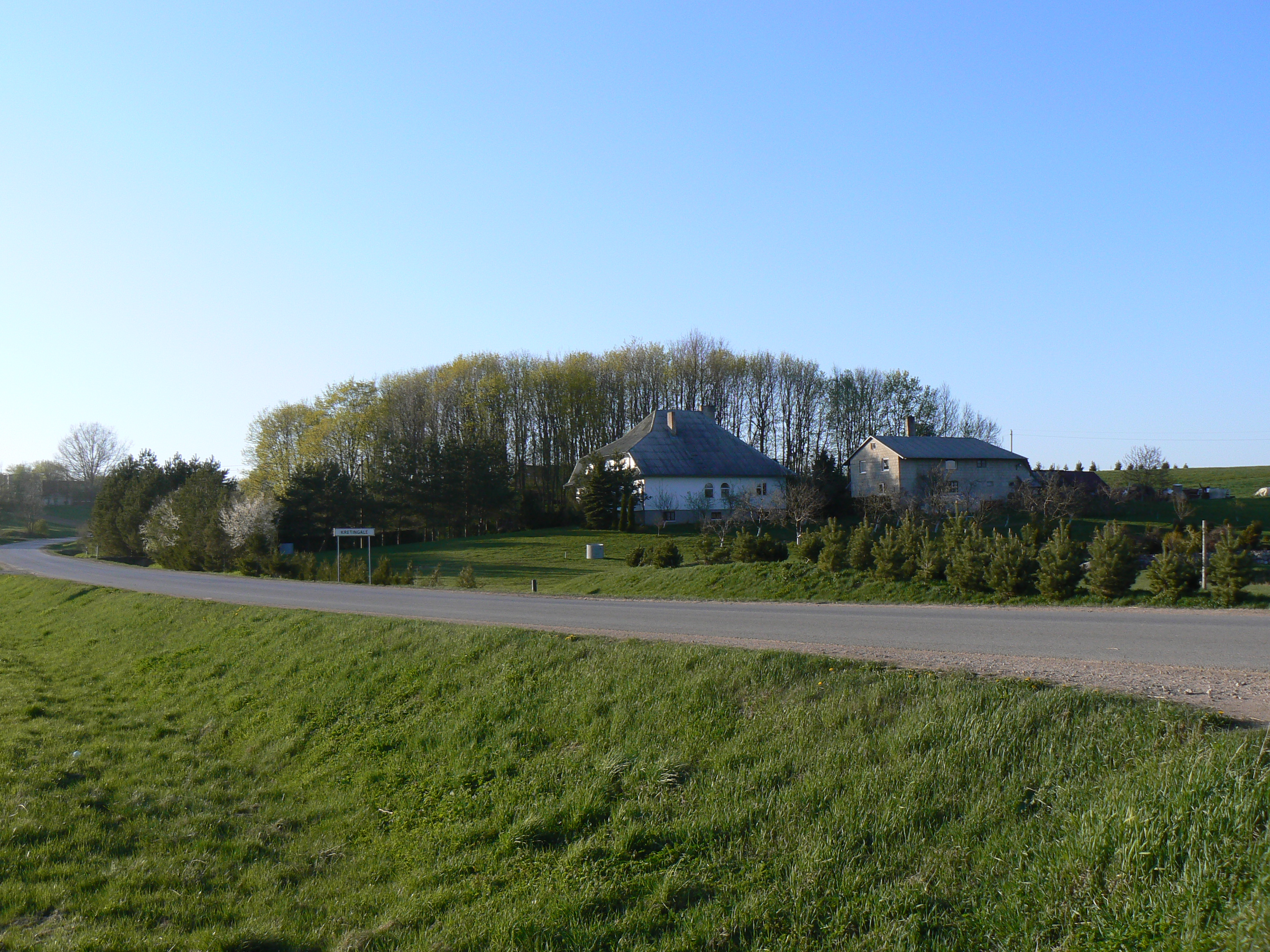 Kretingalė from South